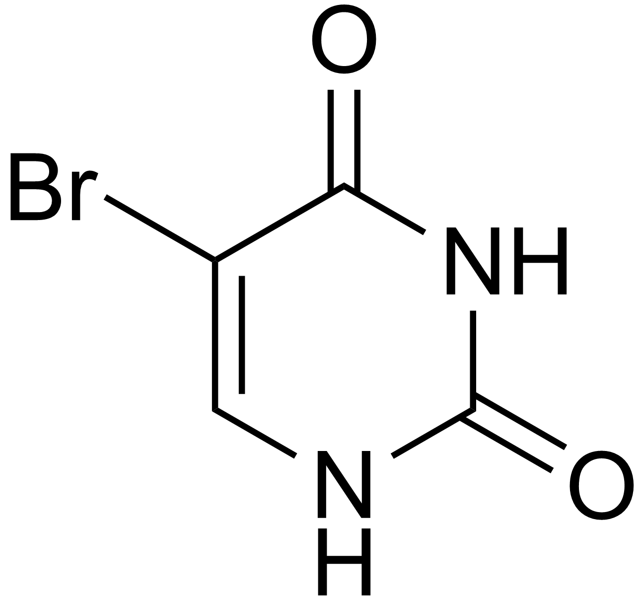 Chemical structure of 5-bromouracil